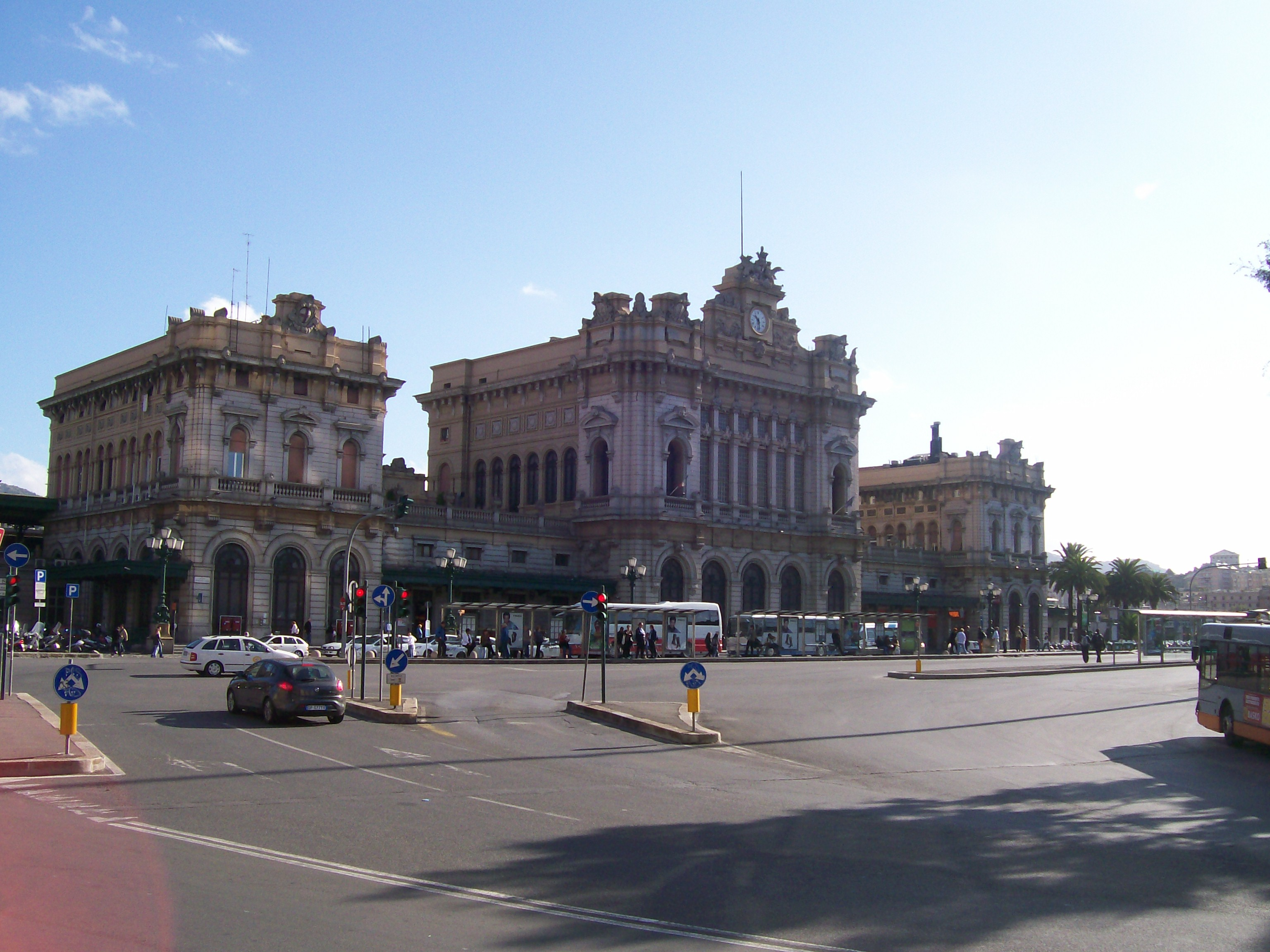 This is the train station Genoa - Brignole